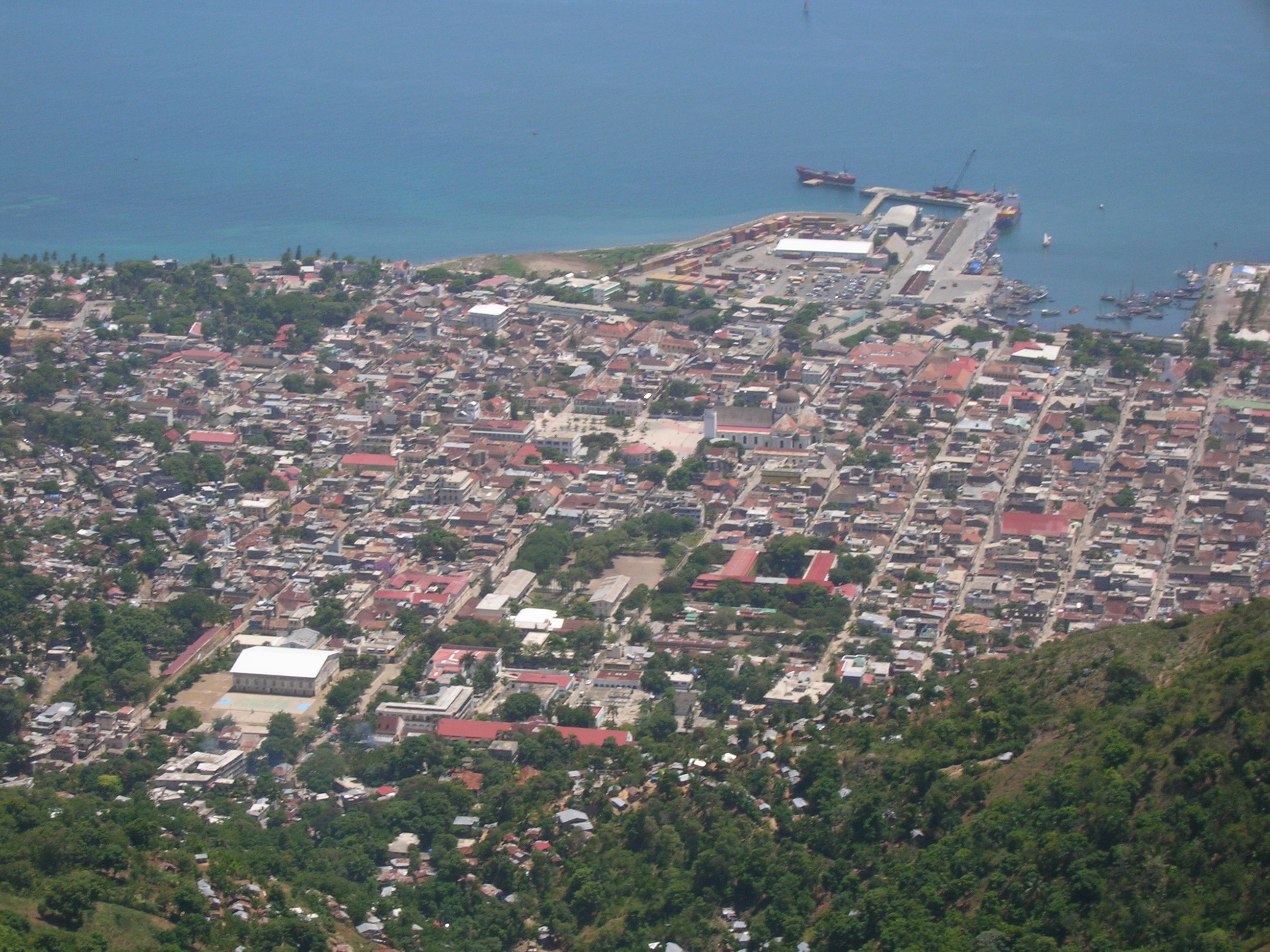 The city centre of Cap-Haitien seen from Morne Jean, with the cathedral and harbour visible.